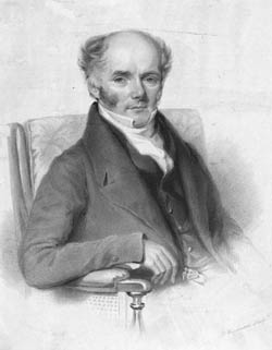 John Bishop Estlin of Bristol - via the Massachusetts Historical Society.